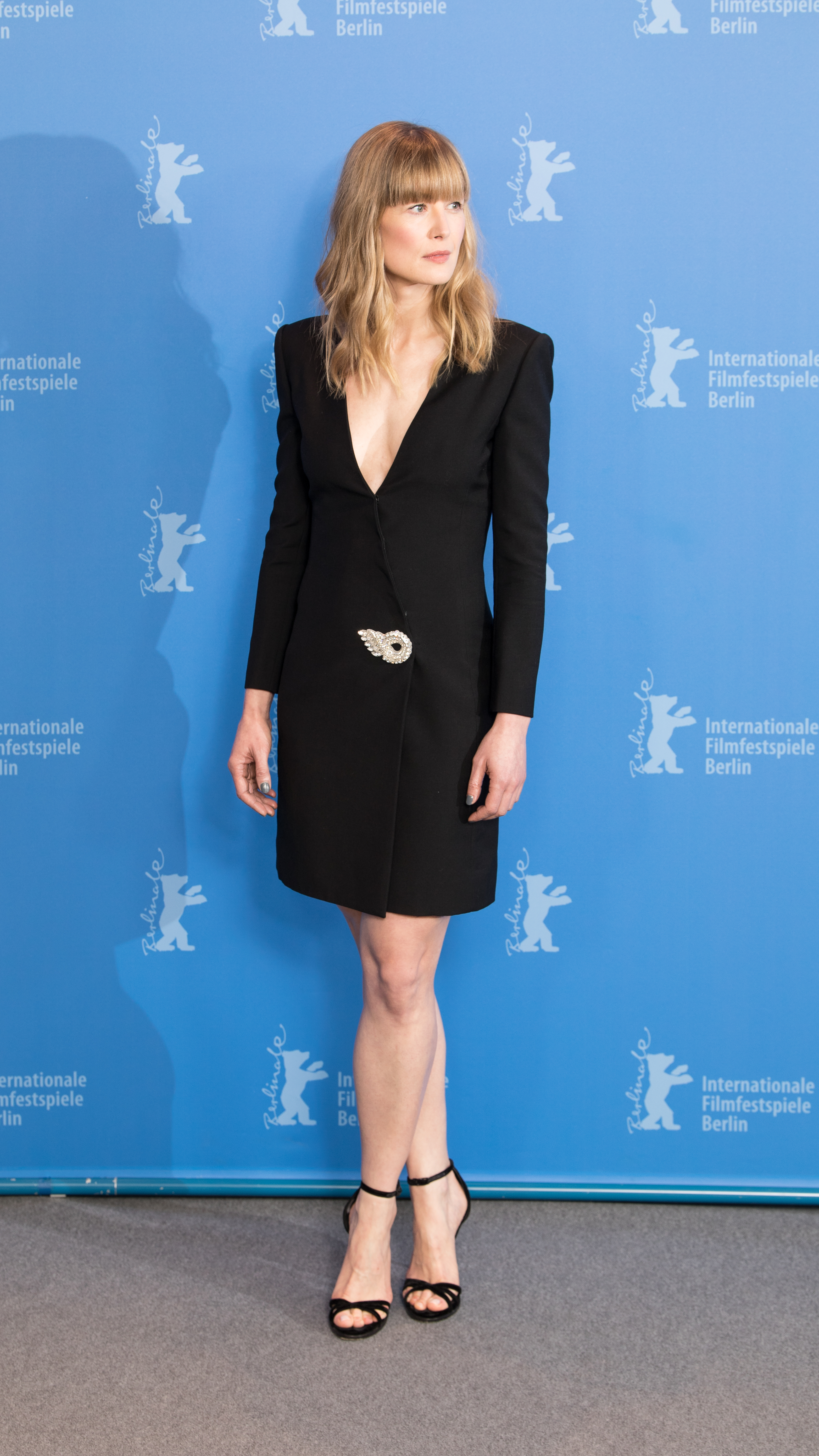 Rosamund Pike at the Berlinale 2018